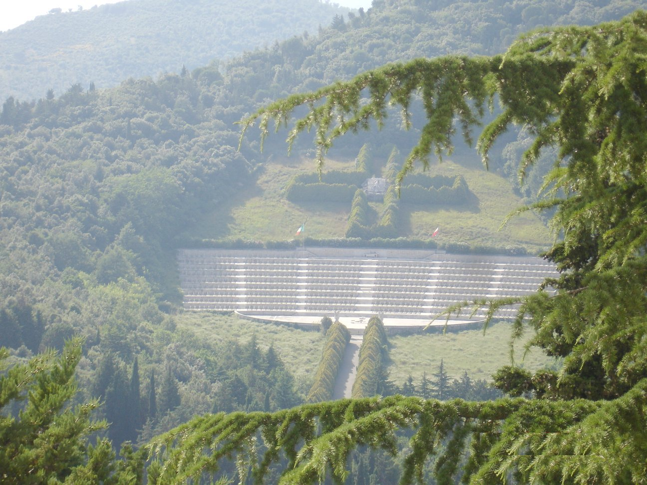 The Polish War Cemetery in Monte Cassino, seen from the abbey.